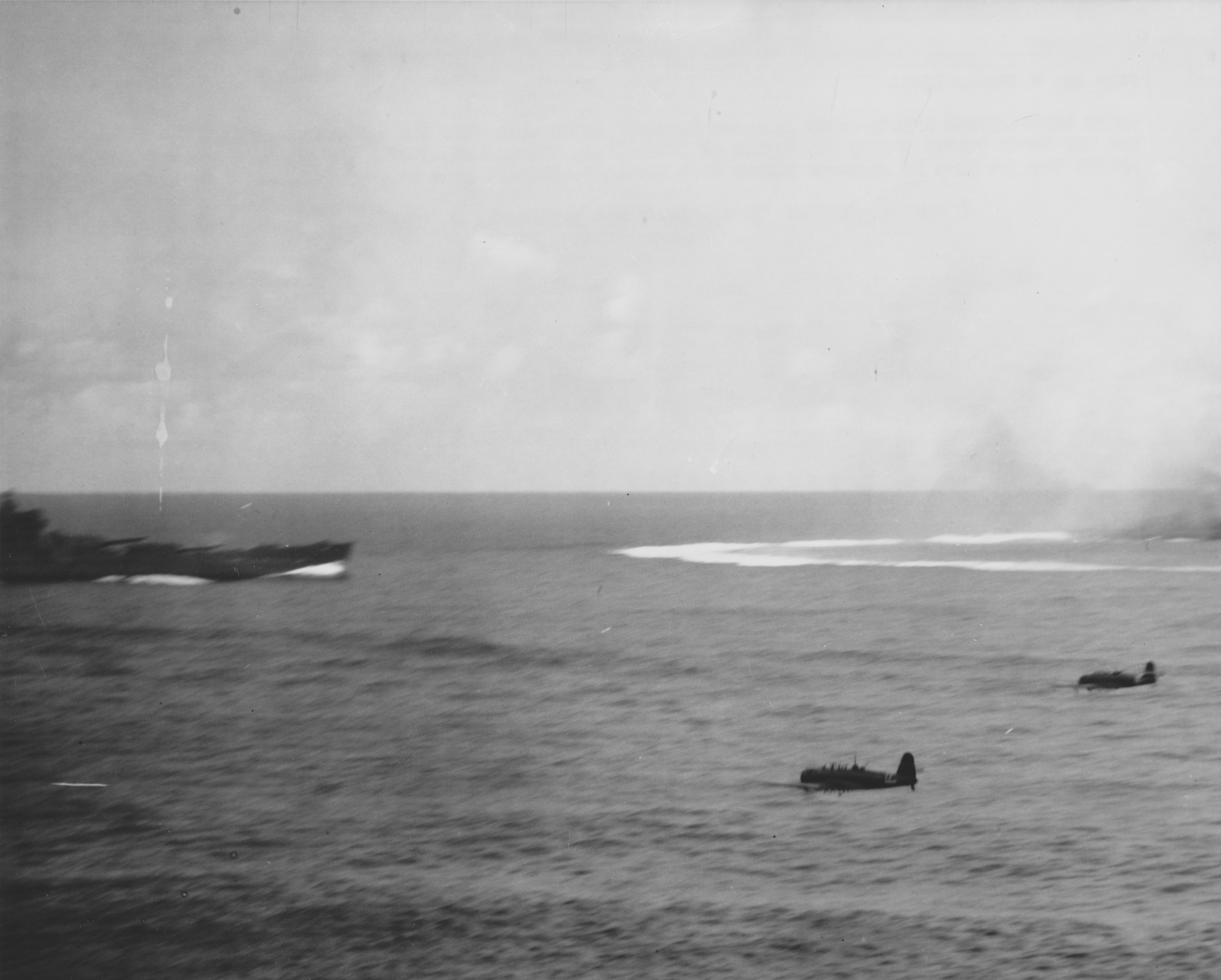 Two Japanese Nakajima B5N2 Kate torpedo bombers near the USS South Dakota during the Battle of Santa Cruz in 1942. Box: 19LCM, BB-57, BN204; Folder N 19LCM-BB57-2 ; File No: W-SPA-14-14084